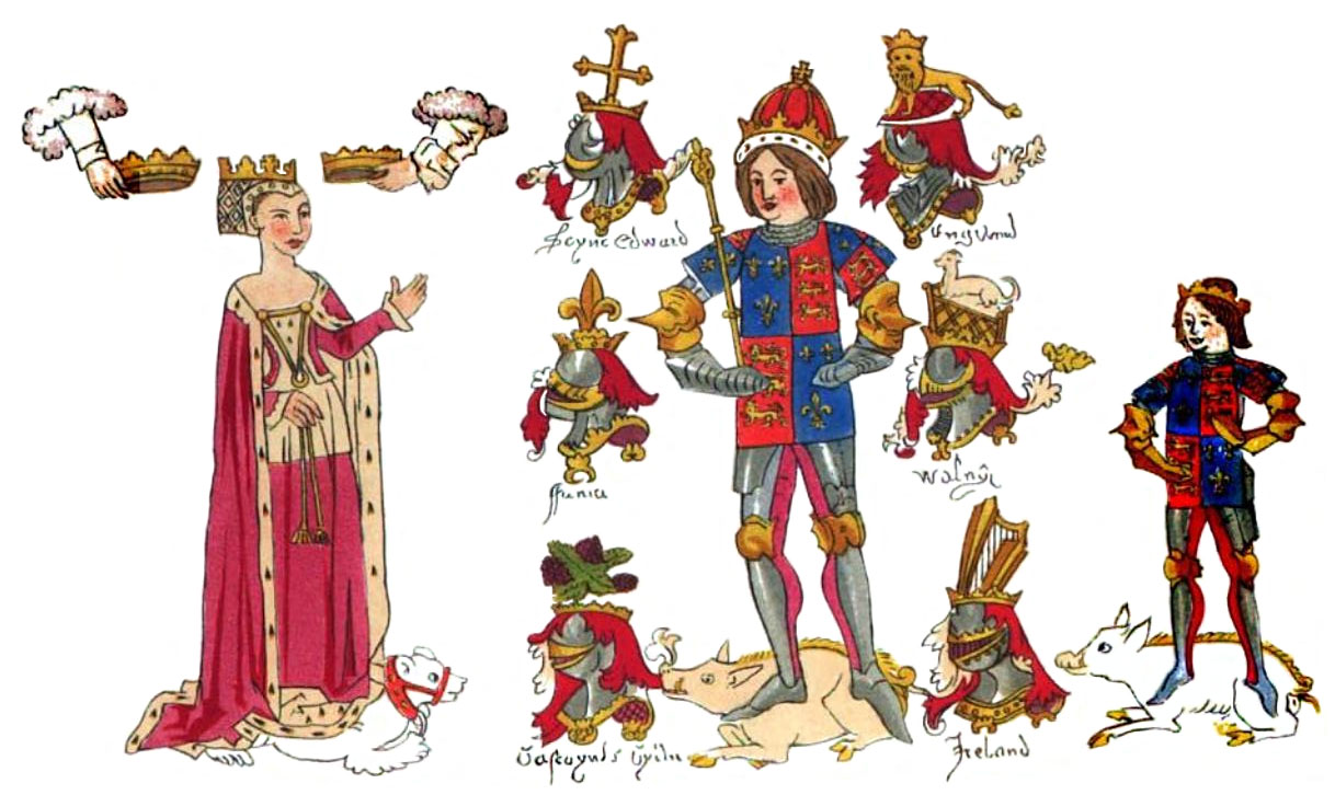 Detail from the Rous Roll showing King Richard III in the centre with his wife Anne Neville on the left and his son Edward, Prince of Wales on the right. Showing his various heraldic crests (St Edward the Confessor, England, Wales, France, Ireland, etc.) and his white boar badge, with the Warwick bear of his wife